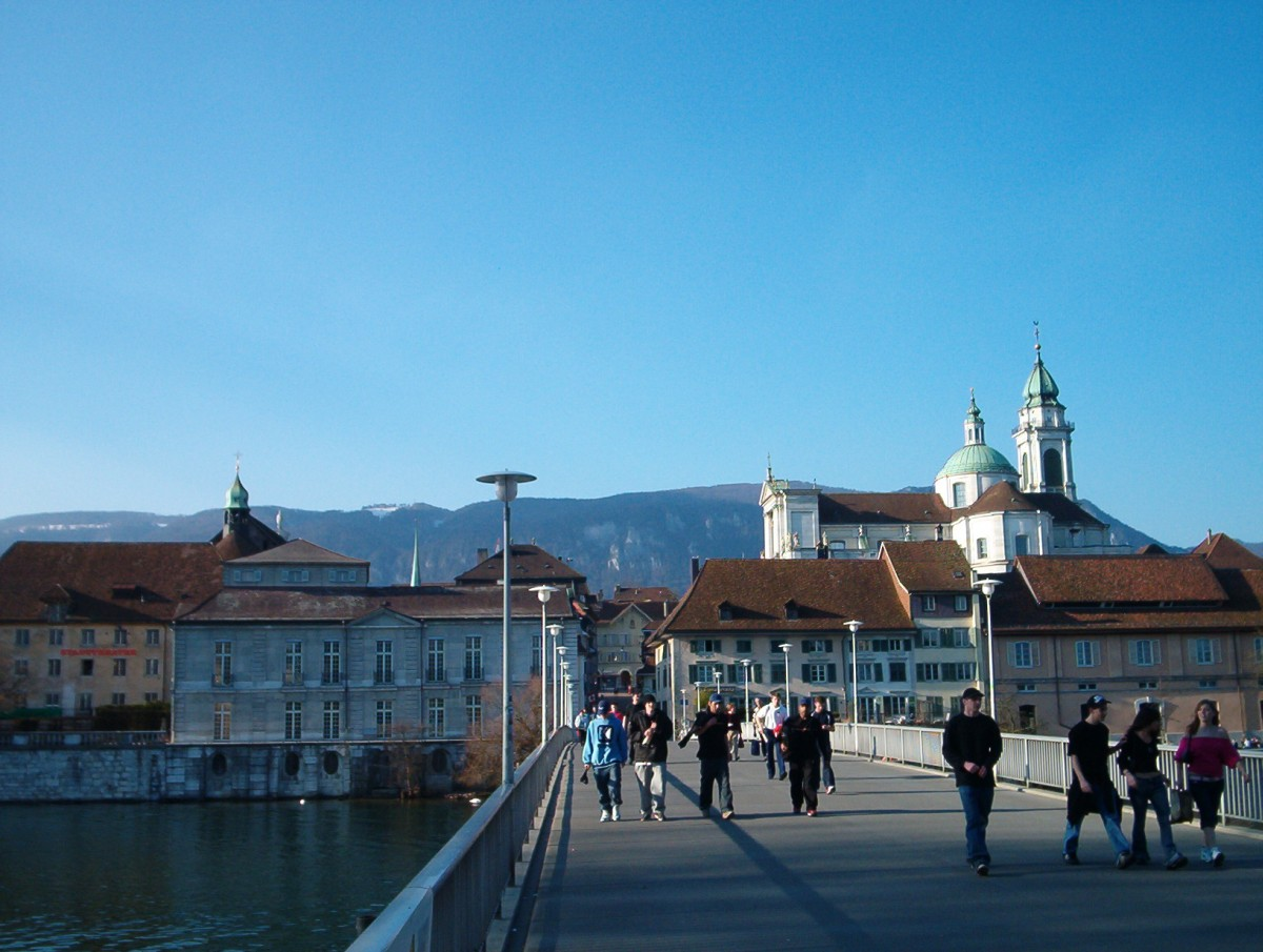 The old city of Solothurn, Switzerland, and Weissenstein mountain, seen from the Kreuzacker bridge (crossing the river Aare).